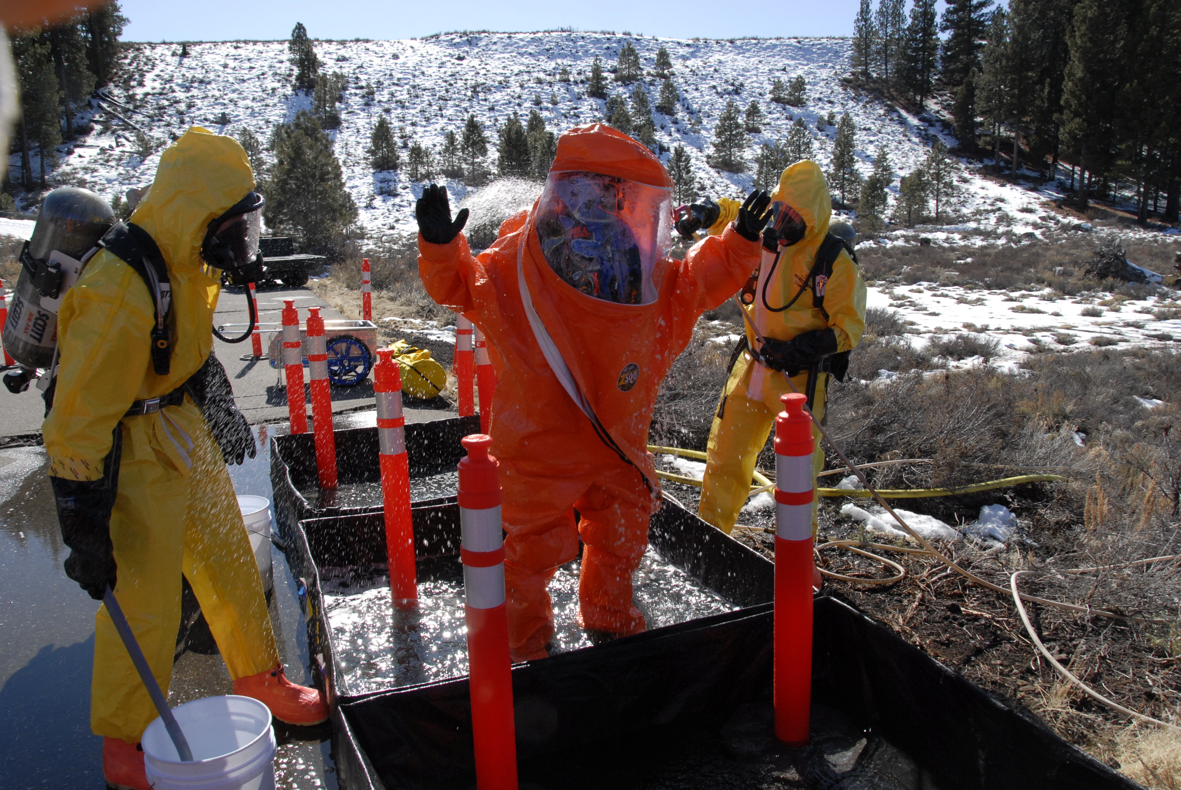 Members of the Placer County Hazardous Material Team decontaminate soldiers from the 95th Civil Support Team after surveying a simulated domestic terrorist weapons of mass destruction lab while participating in Operation Red Snow, Feb. 14, at Glider Airport in Truckee, Calif. Operation Red Snow is a multi-agency chemical, biological, radiological and nuclear threat response exercise to strengthen the partnership between federal, state and local jurisdiction regarding a response to the possible threat of a domestic attack on the United States. Unit: California National Guard DVIDS Tags: Airmen; decontamination; terrorists; CST; SWAT; radiological; squadron; Weapons of Mass Destruction; FBI; soldiers; Security Forces; Marines; Bridgeport; 146th Airlift Wing; 95th Civil Support Team; 144th Fighter Wing; survival specialists; Operation Red Snow; forces elevation; joint multi-agency community response scenario; black hawk assault camp; cold weather tents; toiyabe forest; chemical decon; nuclear threat; USMC Mountain Warfare Training Center; alpine ski; rock winter; California Army Air National Guard; base combat military; civil support teams law enforcement; truckee biological